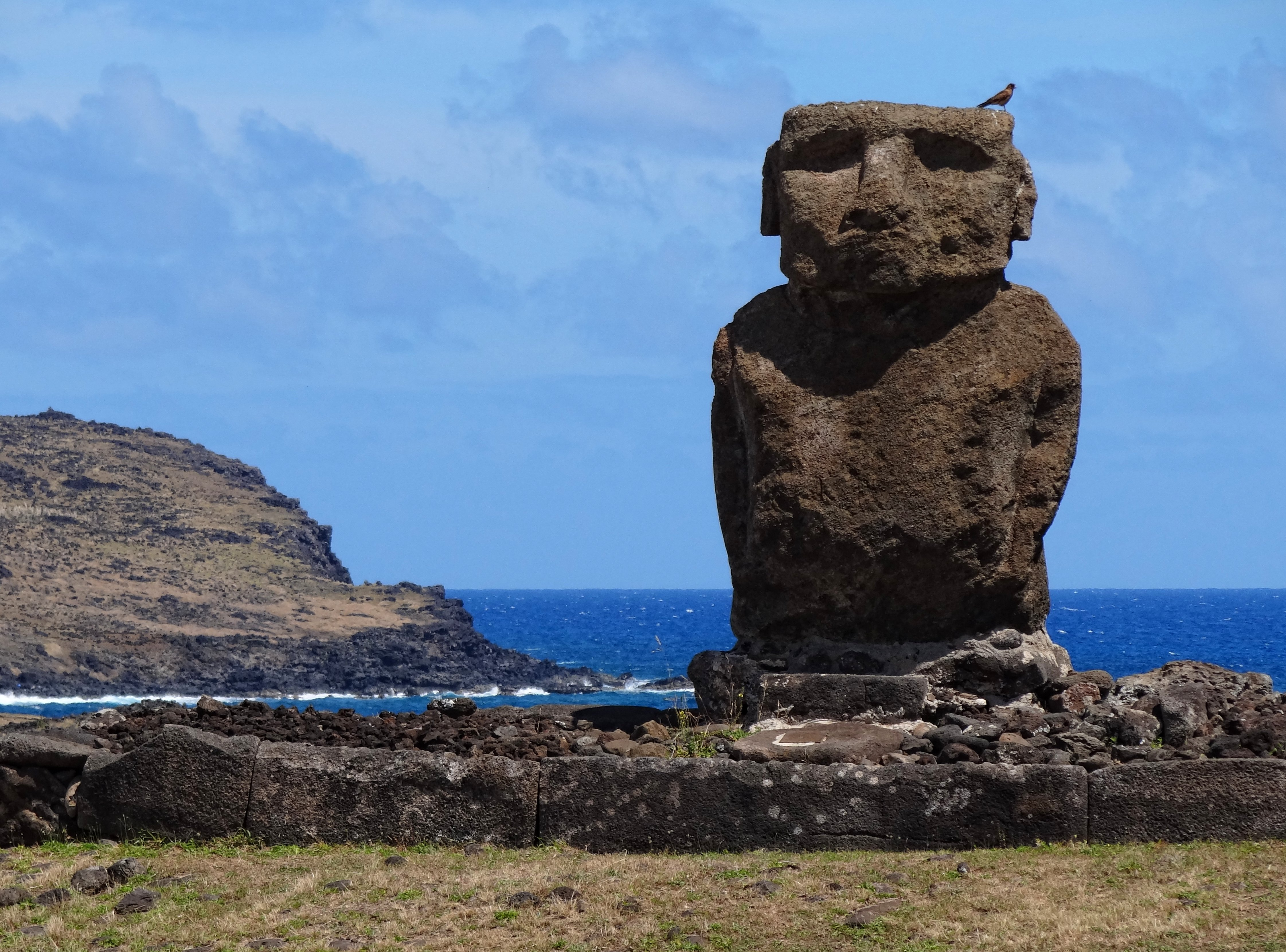 Ahu Ature on Anakena Beach was one of the first statues to be re-erected in modern times, after all the moai on Easter Island were pulled down during times of war on the island.